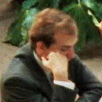 Alexander Beliavsky, Chess Olympiad 1982 in Luzern, Photographer Gerhard Hund.